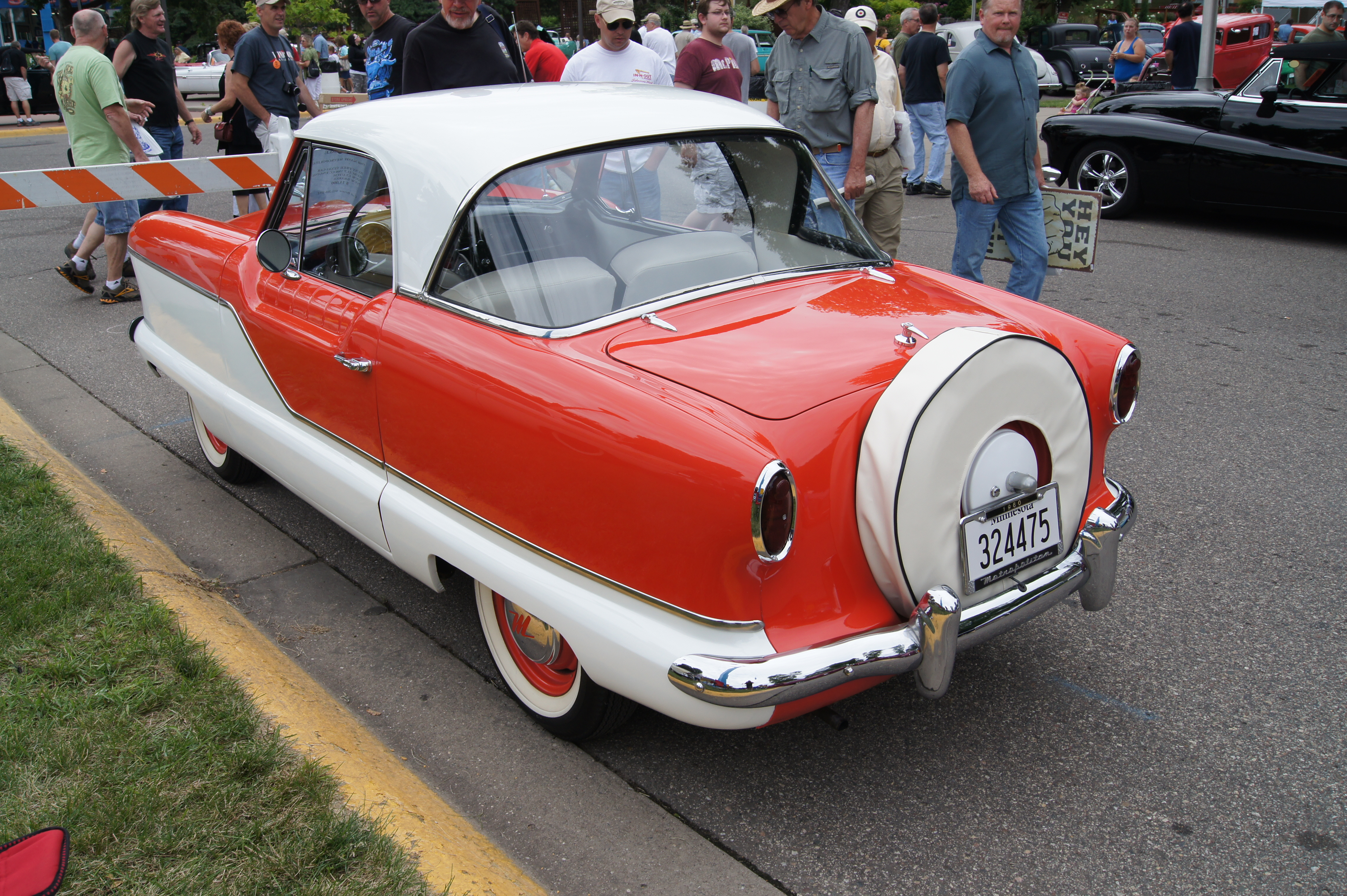 Minnesota Street Rod Association 39th Annual "Back to the Fifties" June 2012 Minnesota State Fairgrounds St. Paul MN